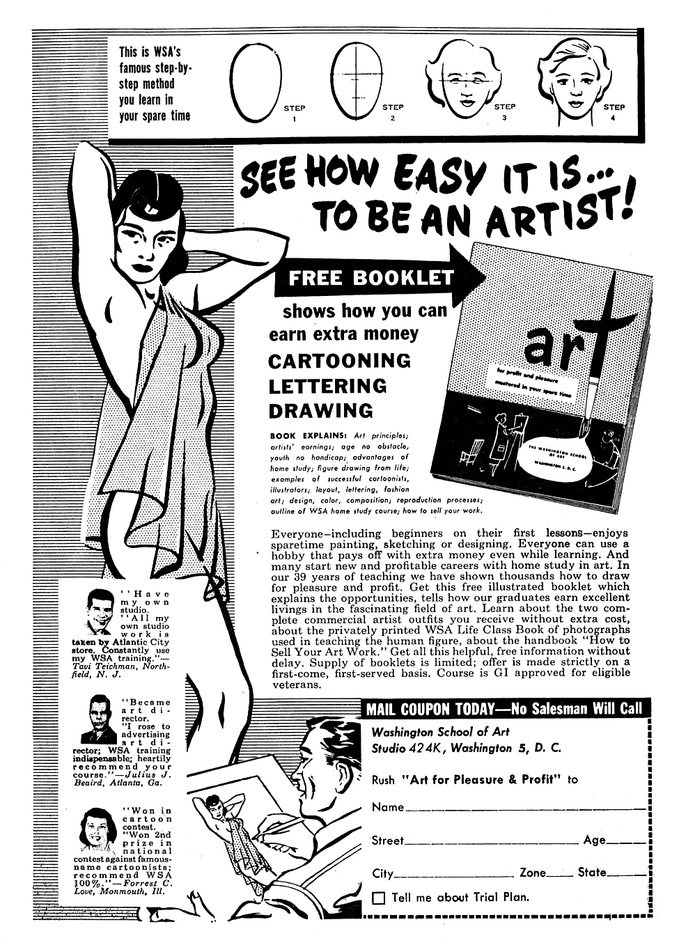 Another classic pre-code comic book advertisement promising the world on a silver platter. Prior to the institution of the Comics Code, cheesecake imagery of this kind was extremely common in children's features.